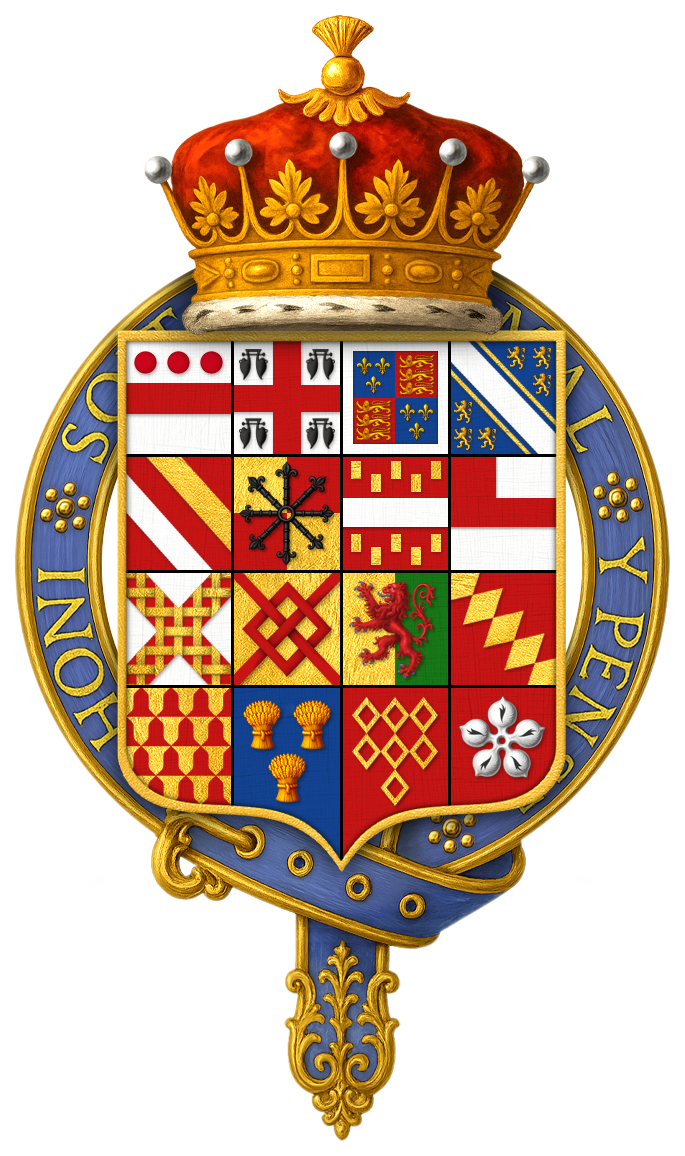 Quartered arms of Sir Walter Devereux, 1st Earl of Essex, KGQuarterly of 16: 1:Devereux 2:Bourchier 3:Thomas of Woodstock 4:Bohun 5: 6:Mandeville 7:Louvain 8:Woodville 9: 10: 11: 12: 13:Ferrers, Earl of Derby 14:Earl of Chester 15:Ferrers of Groby 16:Bellomont/Beaumont, Earl of Leicester